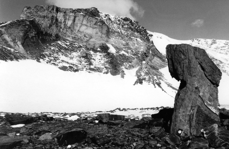 Dallmann Mountains (Queen Maud Land, Antarctica), view from the Brattebotnen in SW direction to the main massif